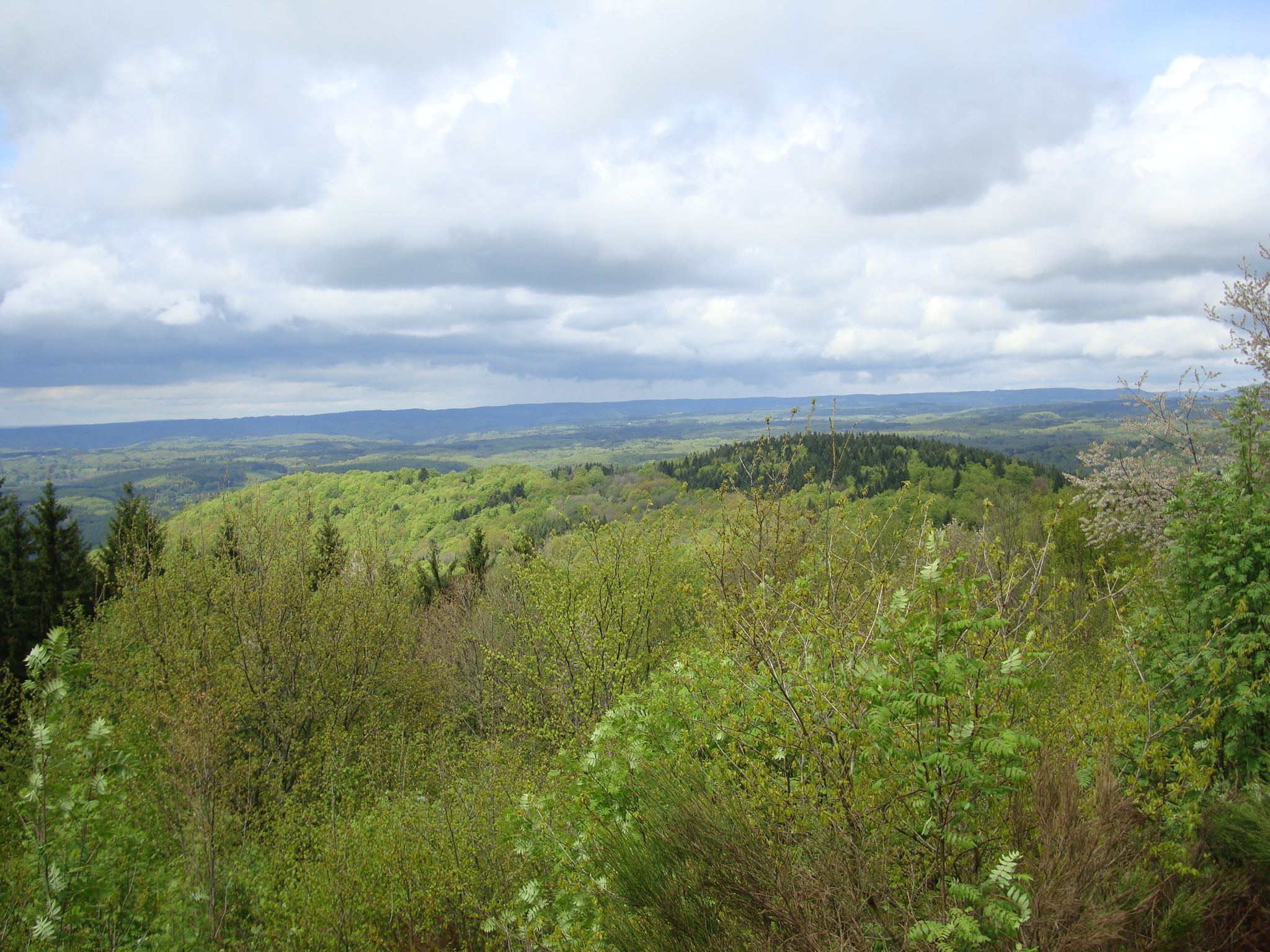 Ternuay-Melay-et-Saint-Hilaire landscape